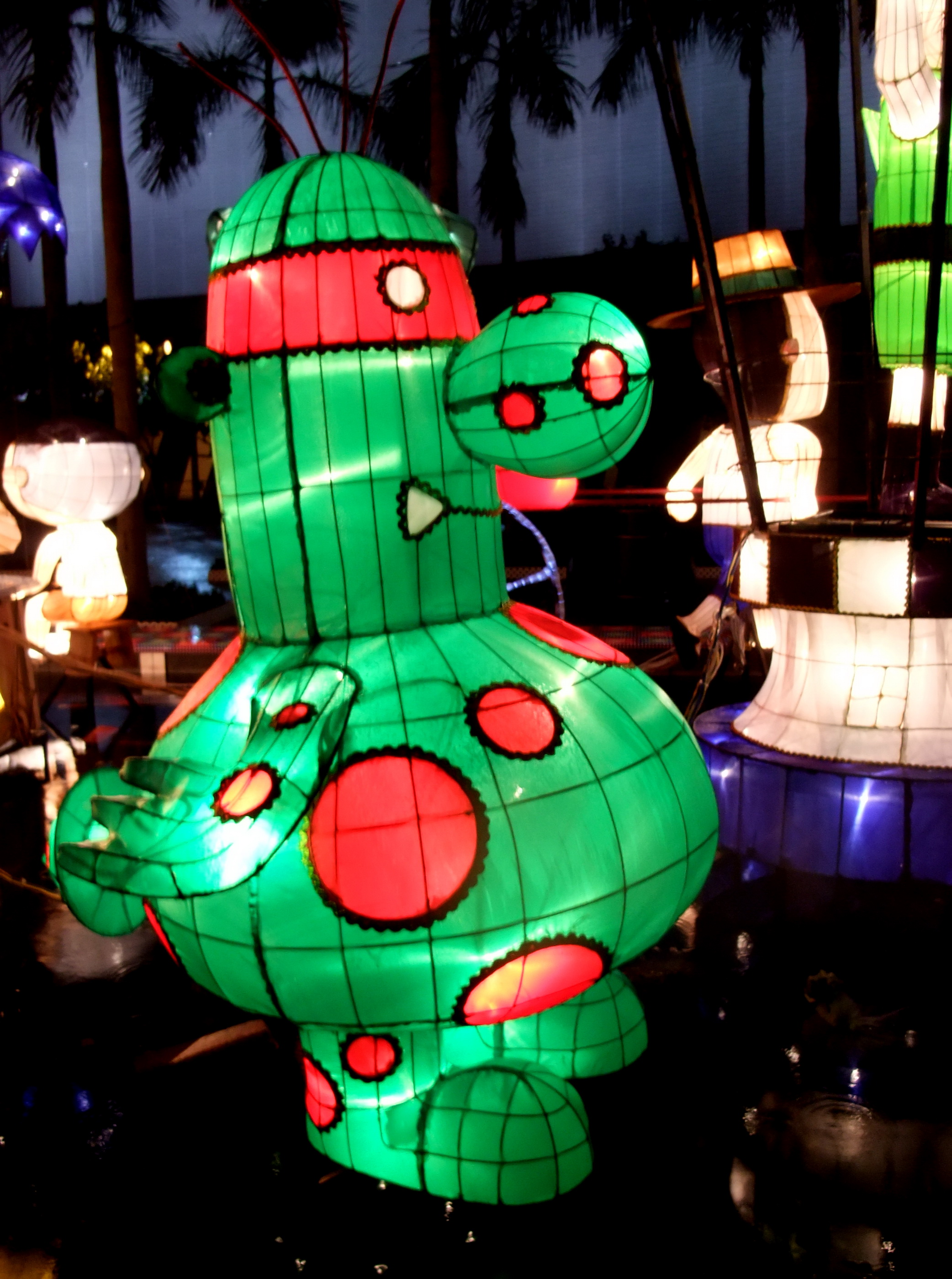 Litter bug decorative lantern on display during 2010 Mid-Autumn Festival in Hong Kong.